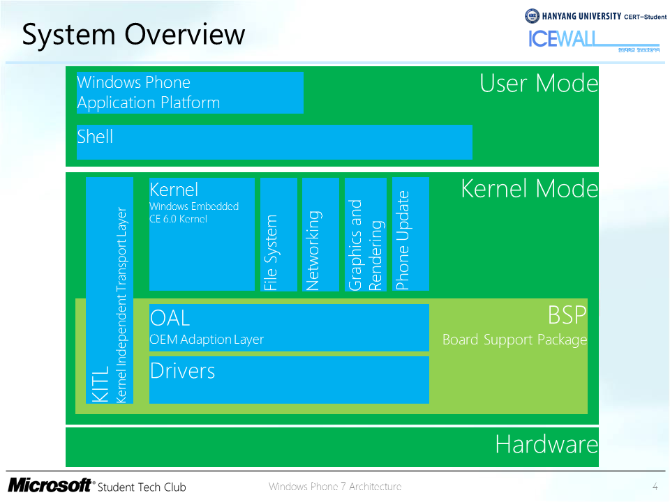 Architecture of Windows Phone 7 OS